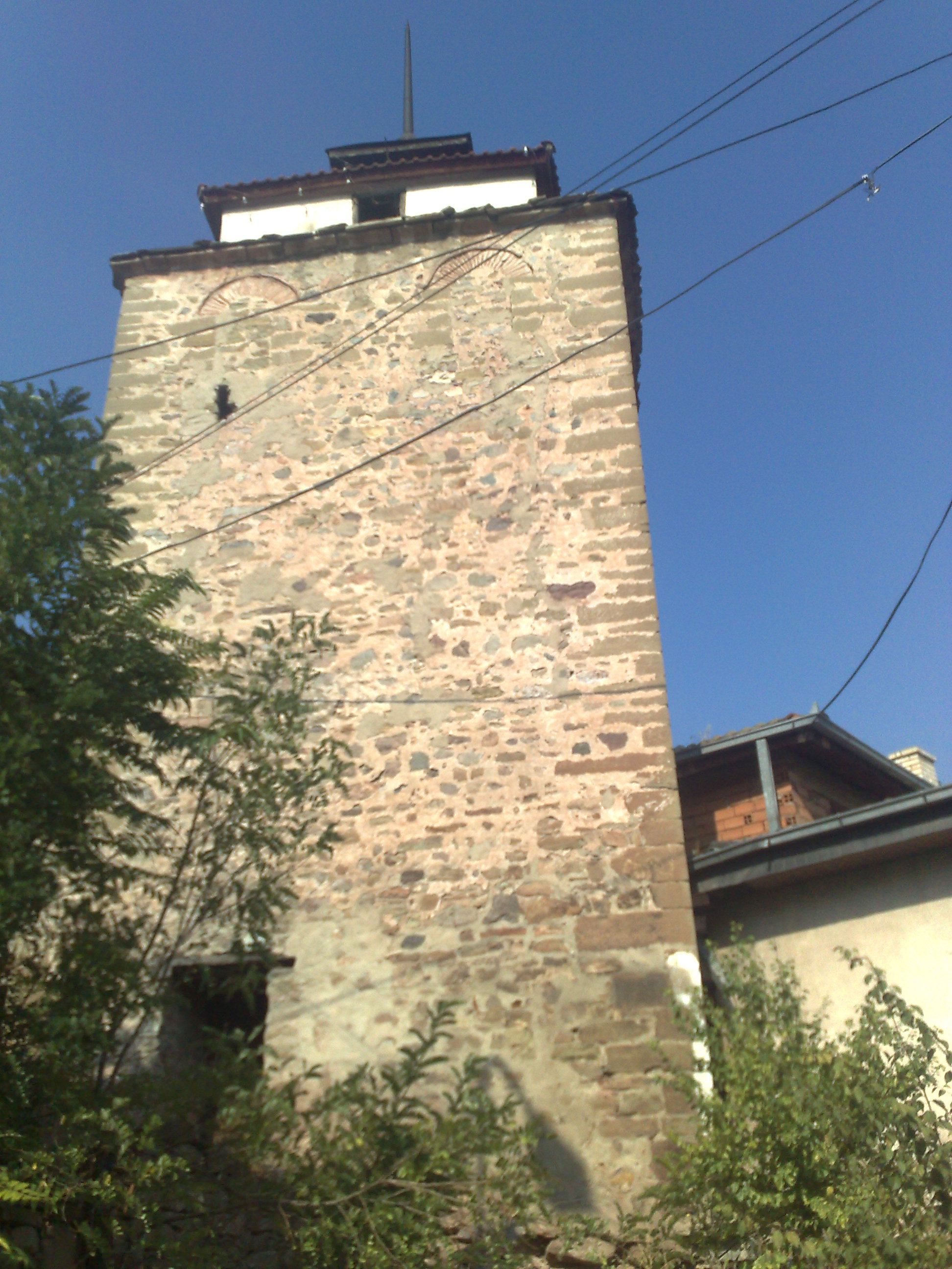 Shtip's clock-tower, Macedonia